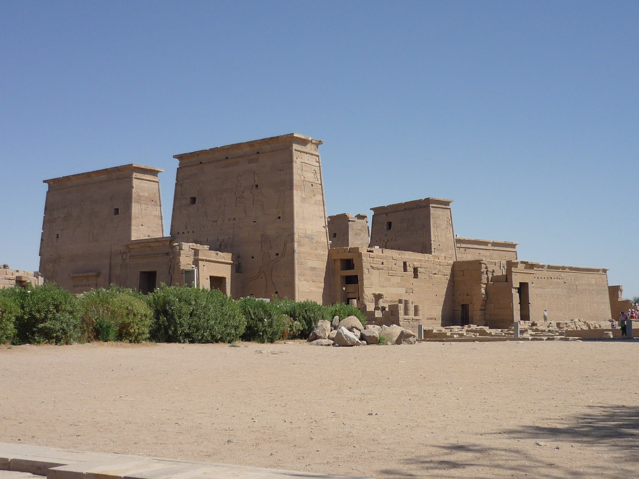 Isis temple, Philae Island, Egypt